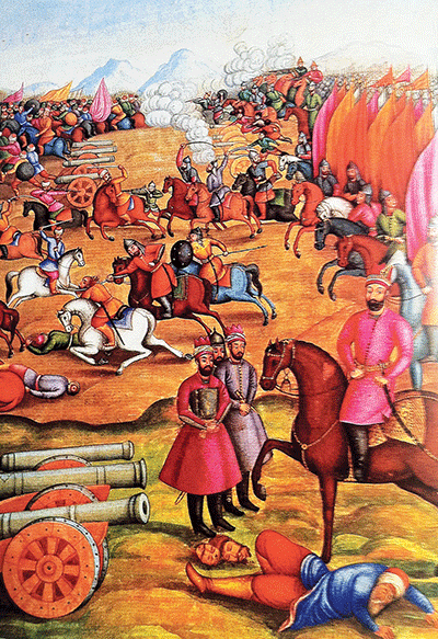 asofjipefnps